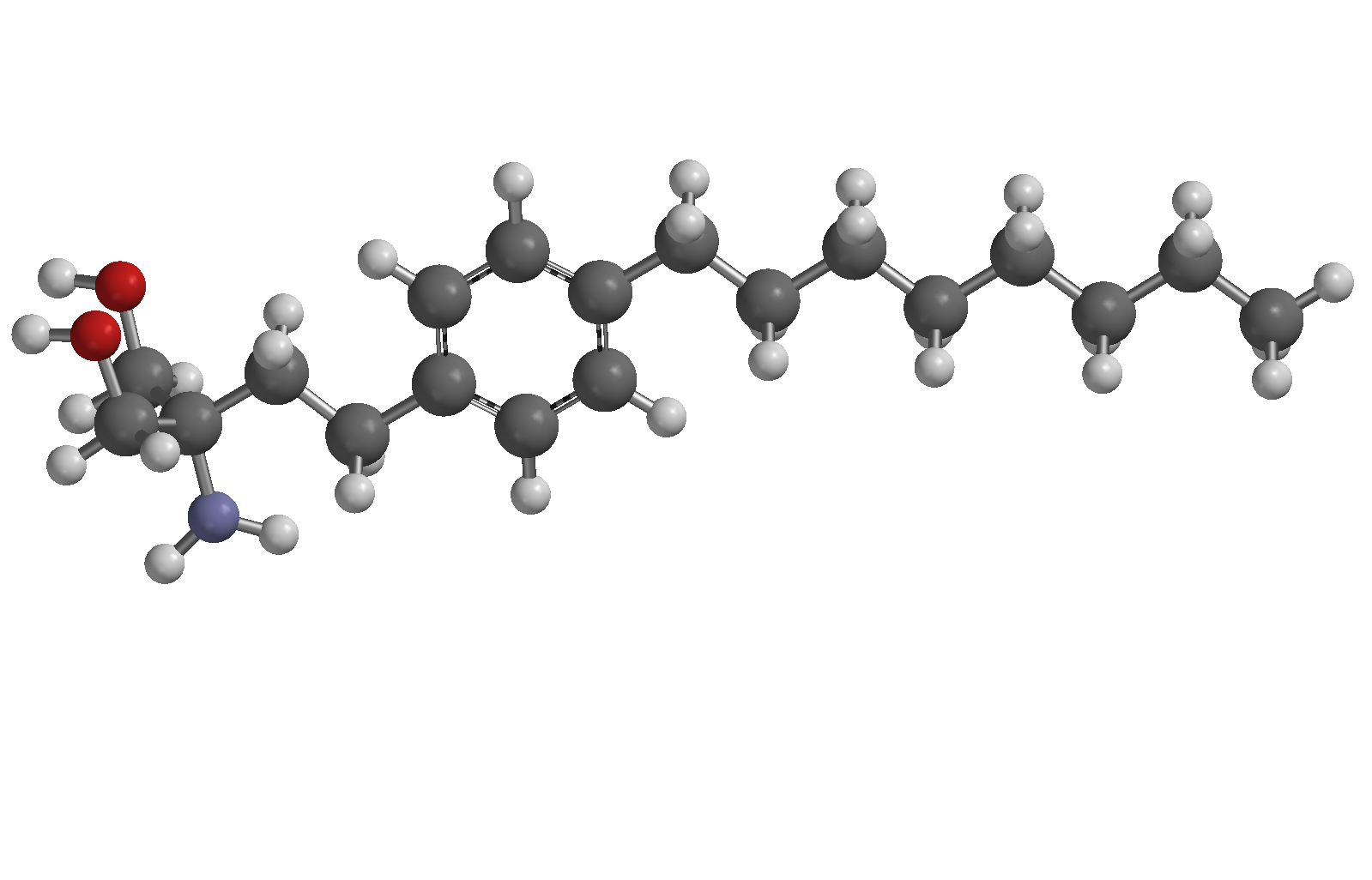 ball and spoke image of the immunosuppressive drug fingolimod.